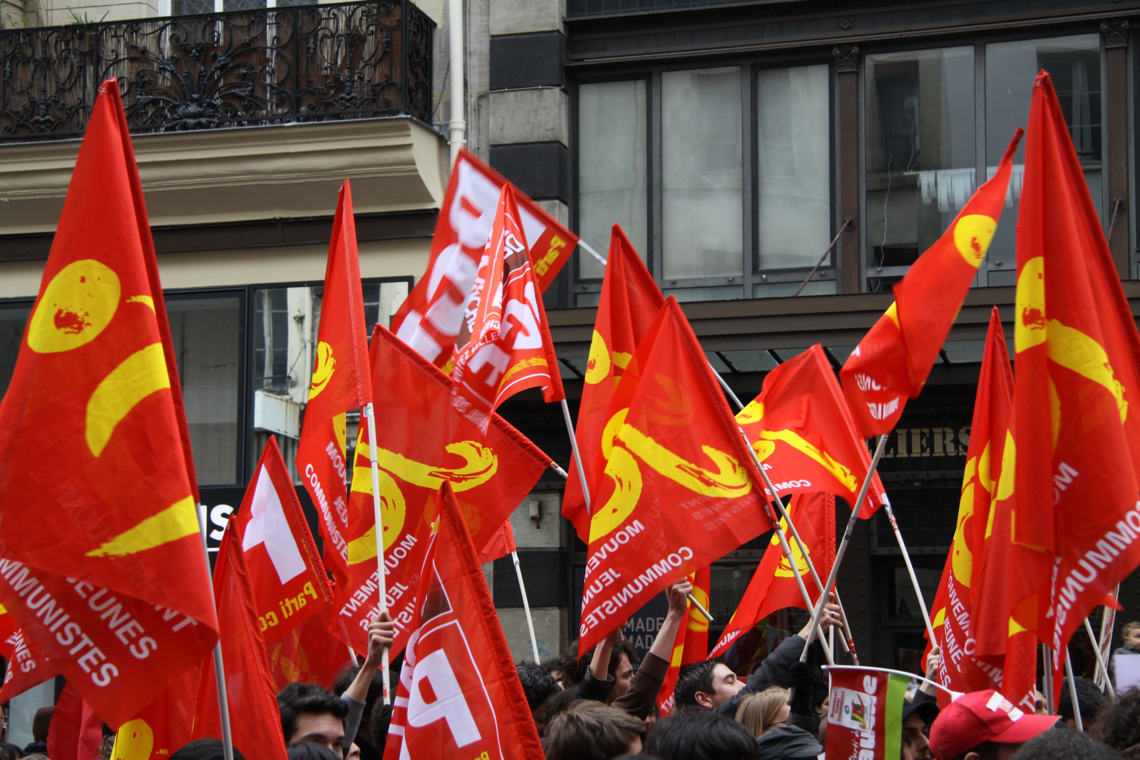 French Communist Party's meeting for the 2012 French presidential election, Paris, France